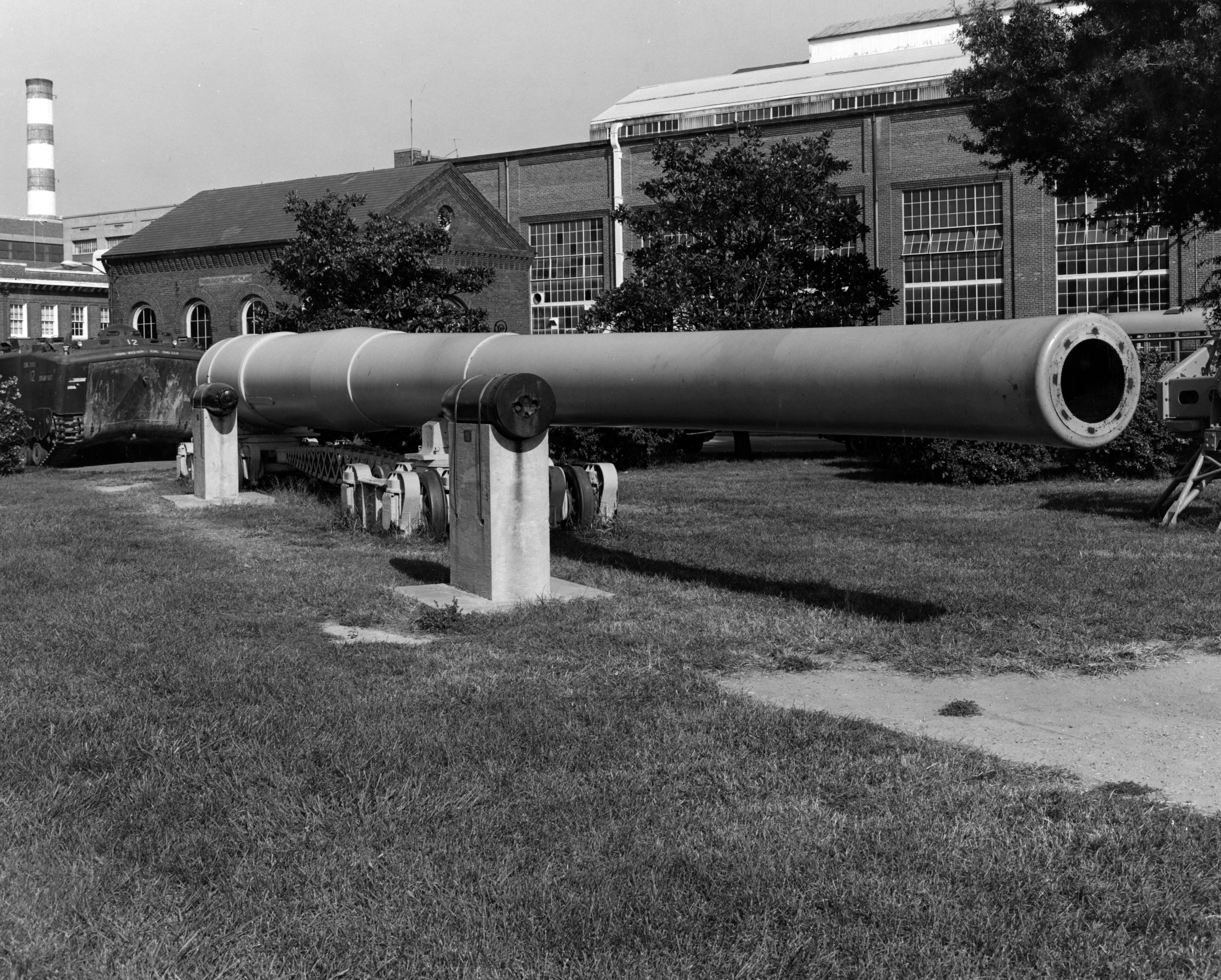 On display in East Willard Park, Washington Navy Yard, D.C., in October 1974. This gun is Number 111, built at the Washington Navy Yard in 1922 for planned installation on the abortive South Dakota (BB 49-54) class battleships and Lexington (CC 1-6) class battle cruisers. Note railway trucks supporting the gun barrel. The two sixteen-inch projectiles displayed alongside the gun are inert shells fired by USS New Jersey into San Clemente Island, California, during shore bombardment practice in 1968.